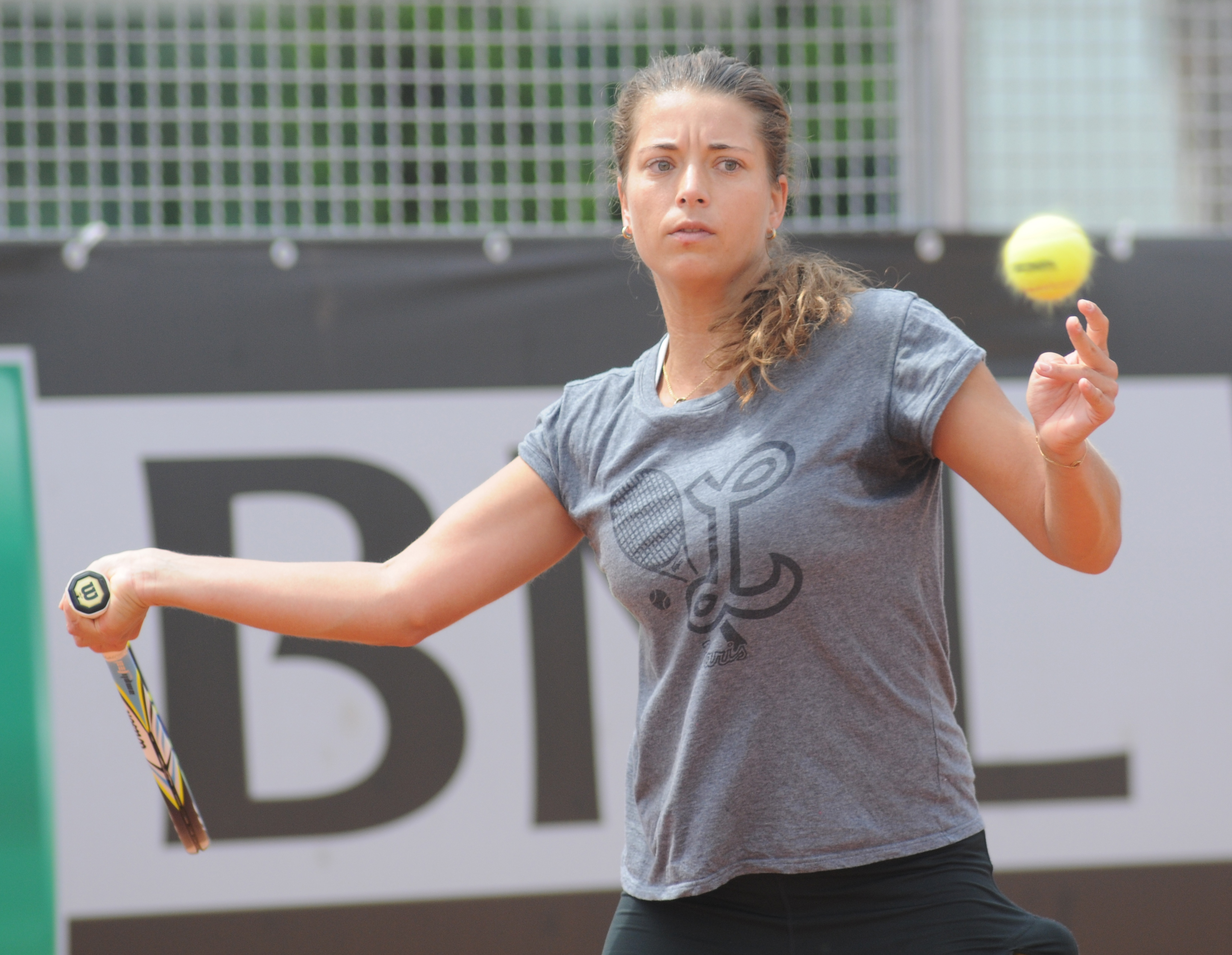 Petra Cetkovská at the 2014 Internazionali BNL d'Italia